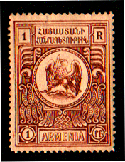 Armenia post. Unissued design of 1920